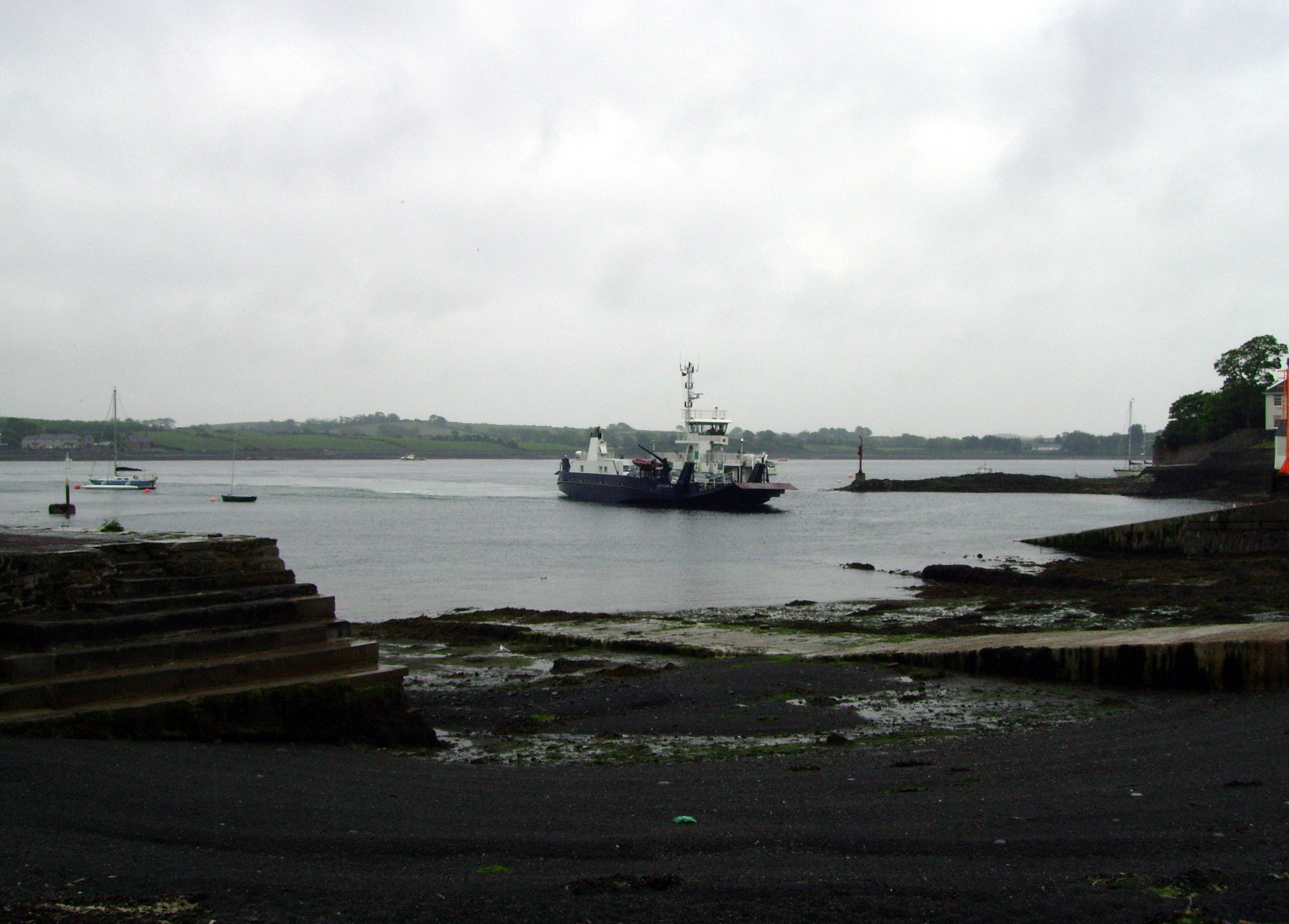 The Portaferry-Strangford Ferry coming in at Strangford, Co Down, Northern Ireland